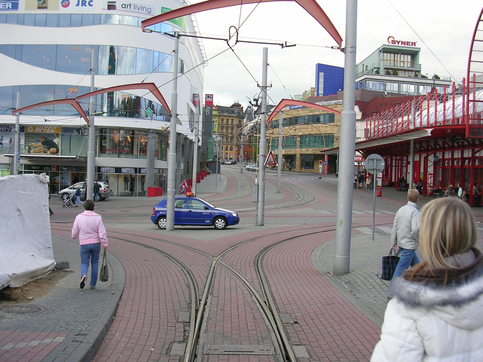 Liberec, Fügnerova street. The connection between the intercity tramway line between Liberec and Jablonec and the city tram track.